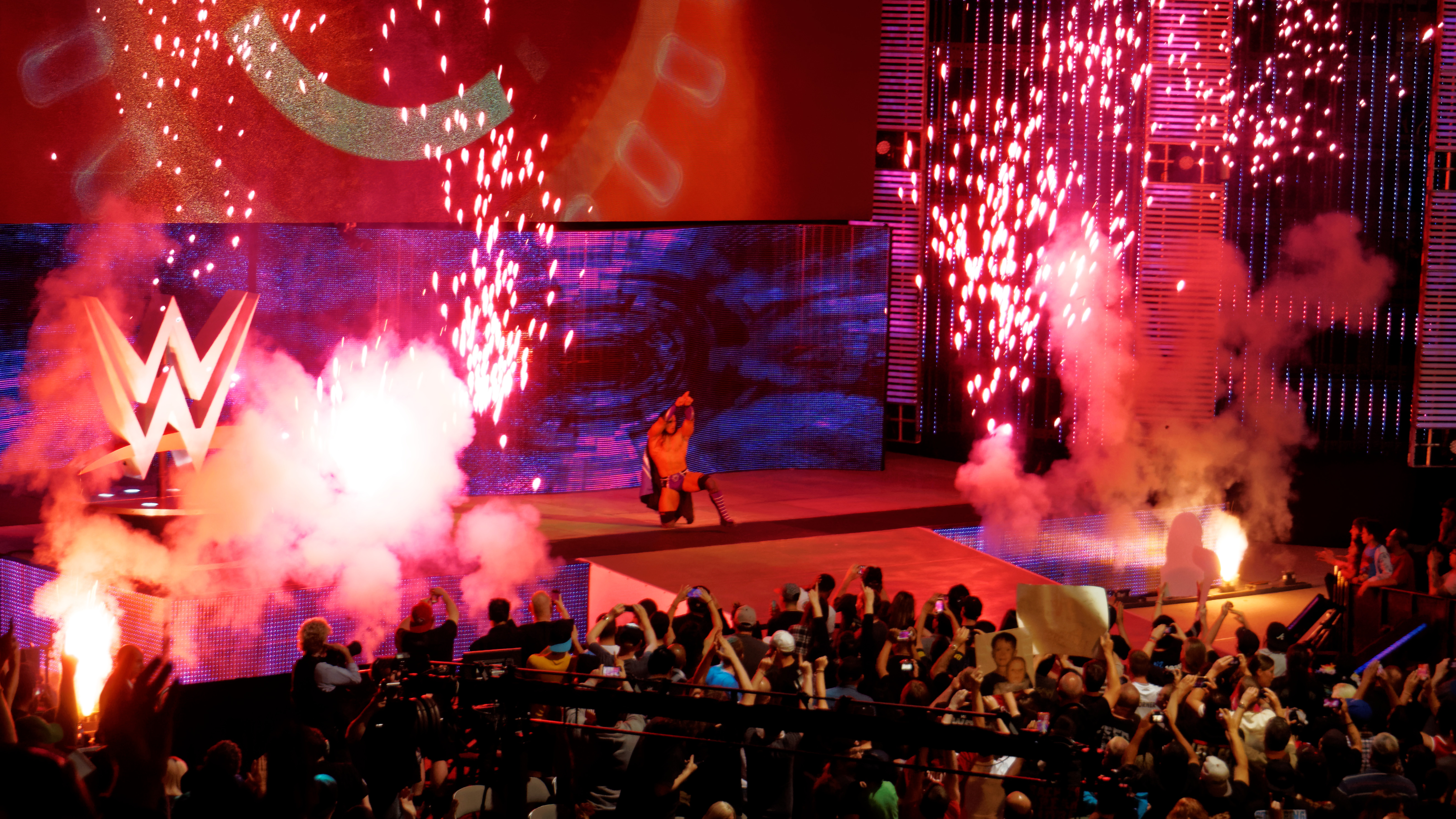 Neville making his entrance the night after WrestleMania 31 in March 2015.